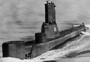 From a site with public images readily available